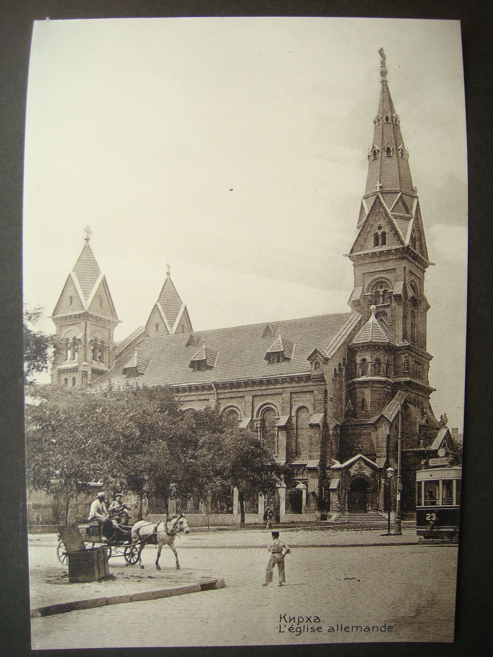 This is photo view of Odessa from Souvenir Photo Album published in Odessa circa early XX century.